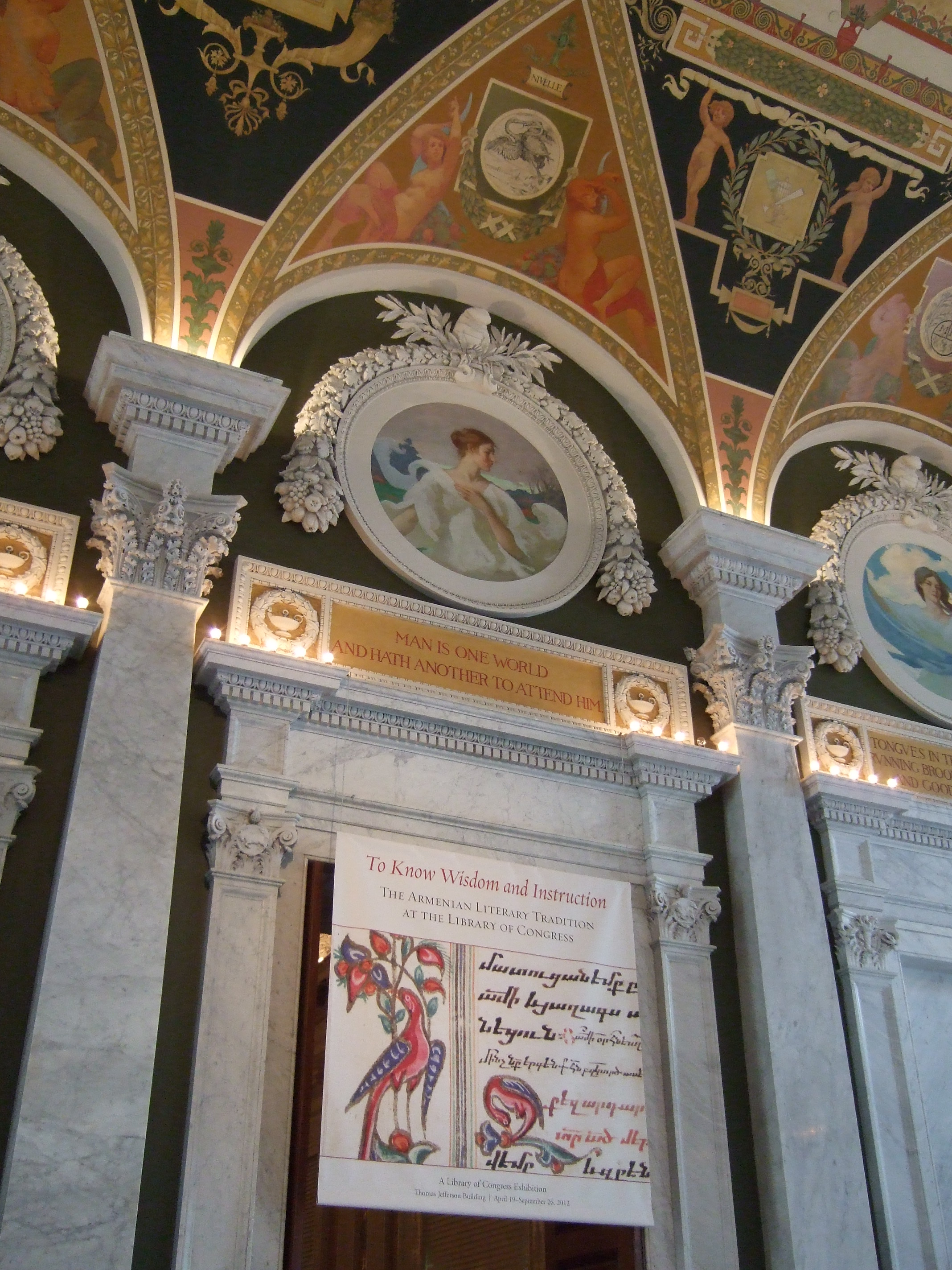 Armenian Literary Tradition: Exhibition dedicated to the 500th anniversary of Armenian printing at the Library of Congress, Washington DC